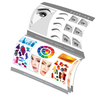 How to teach make up programme